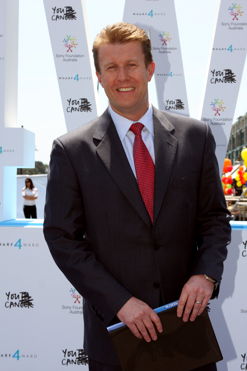 Sydney stars come out in force for Sony Foundation's Youth Cancer campaign